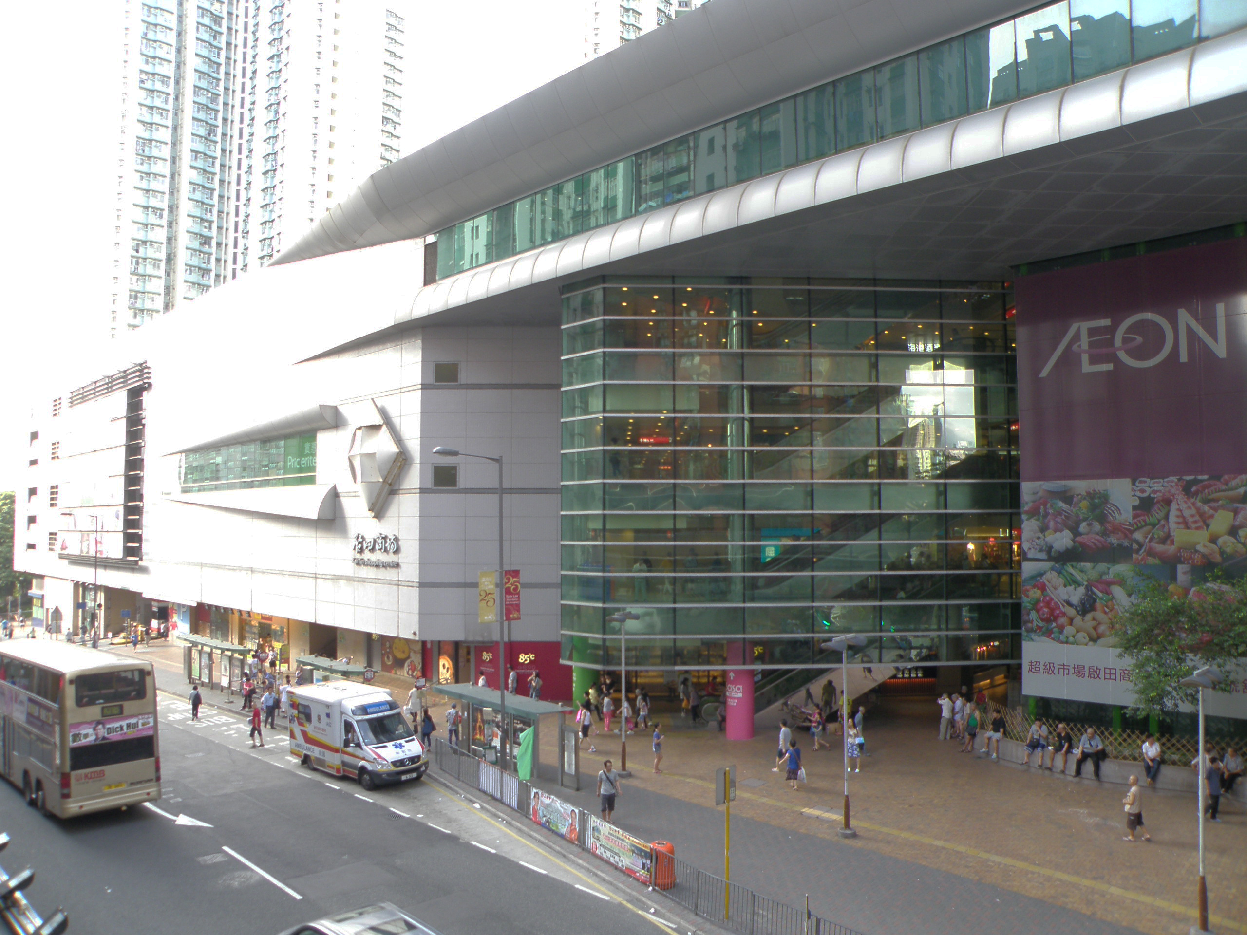 Kai Tin Shopping Centre in Lam Tin, Hong Kong.